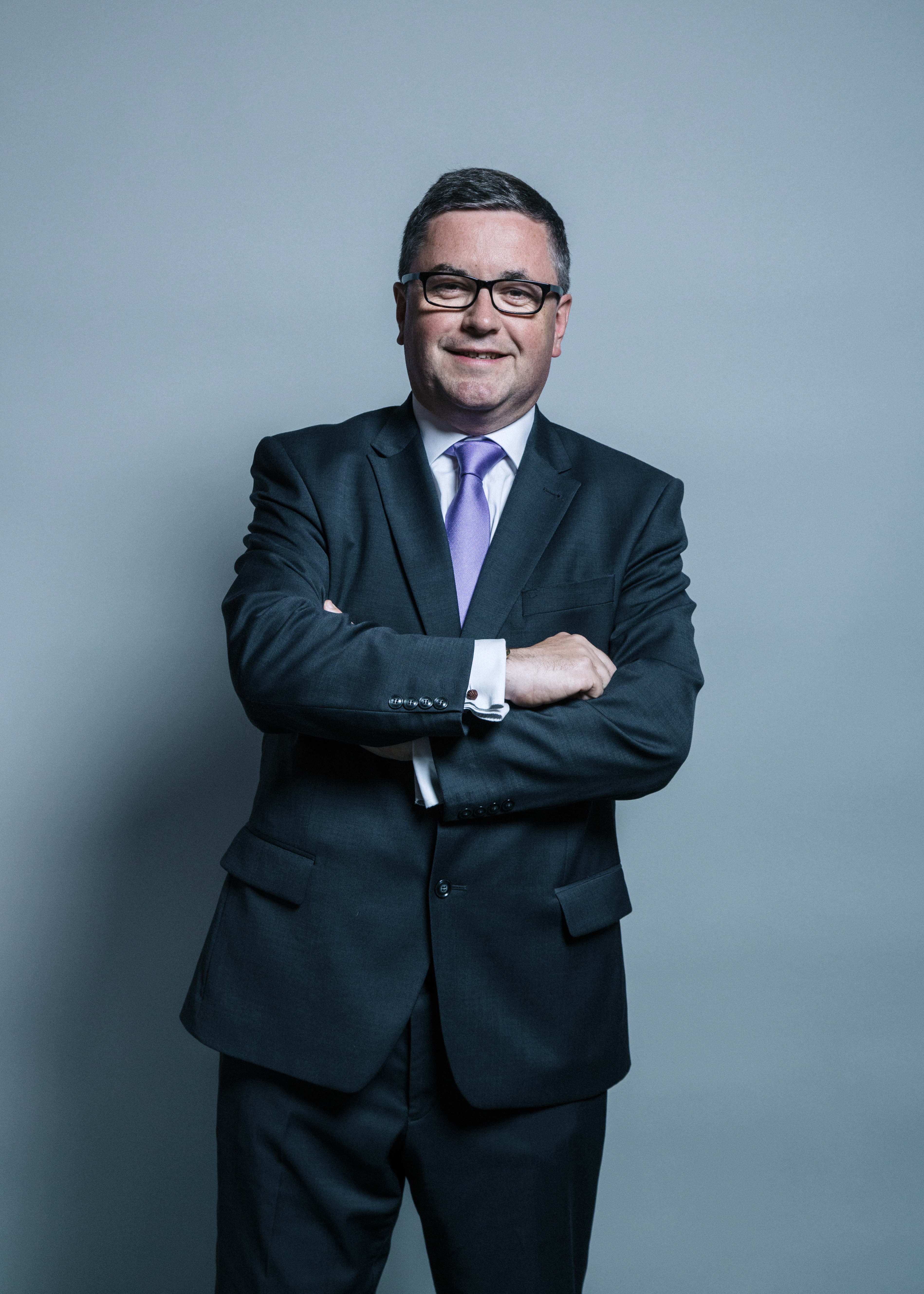 Official portrait of Robert Buckland